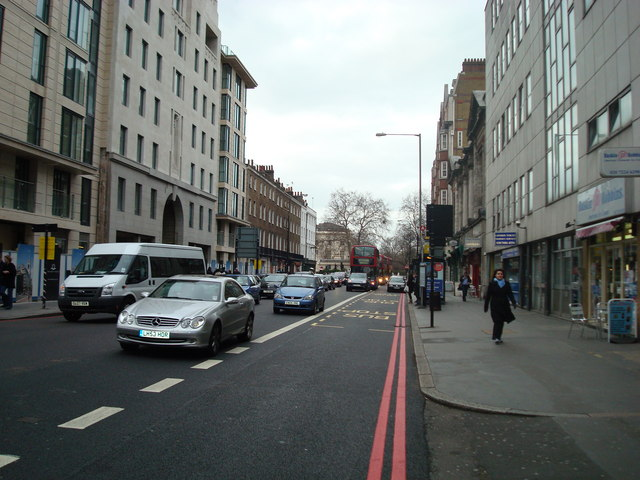 Baker Street, London NW1